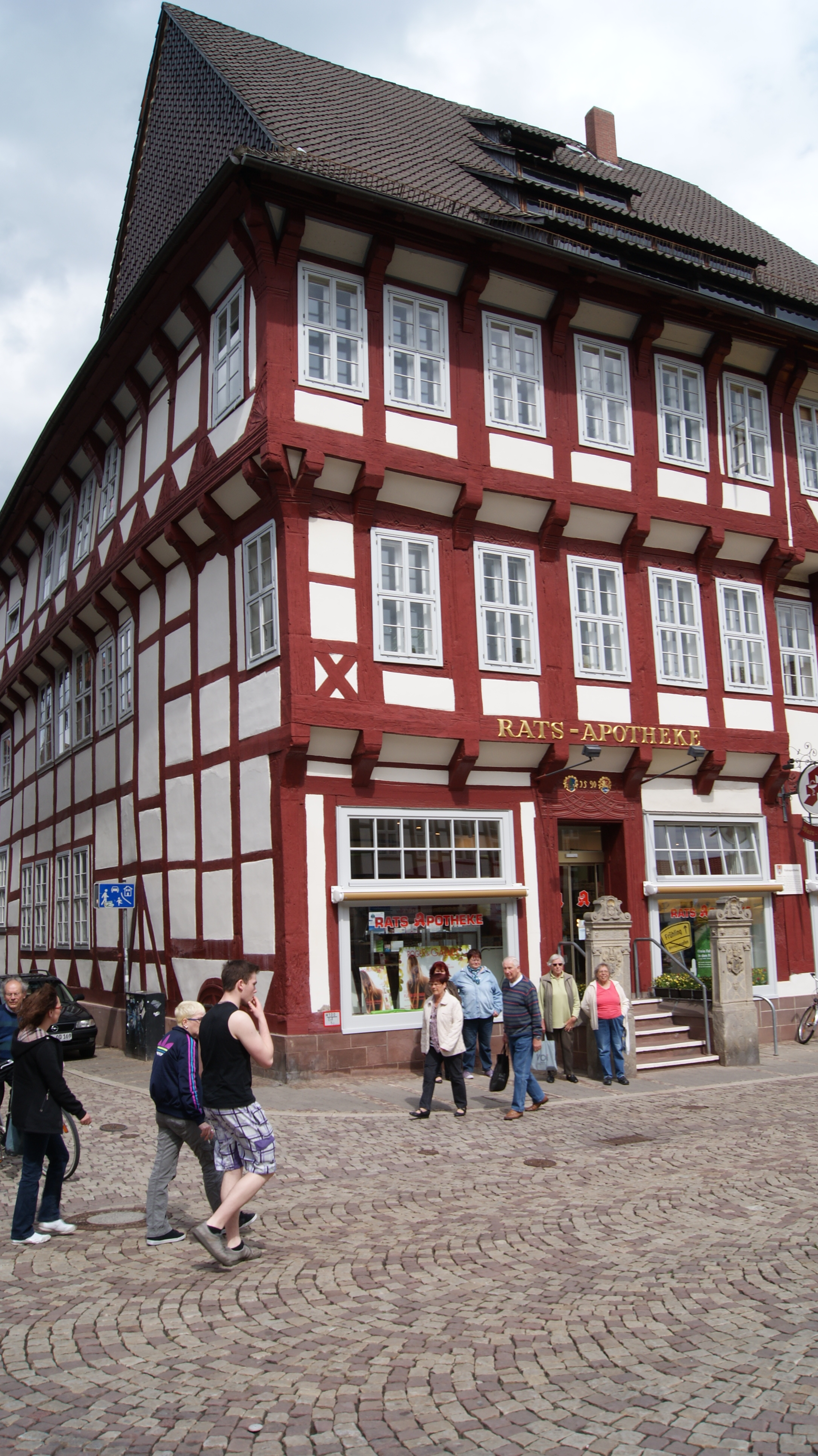 Frontview "Rats-Apotheke" in Einbeck